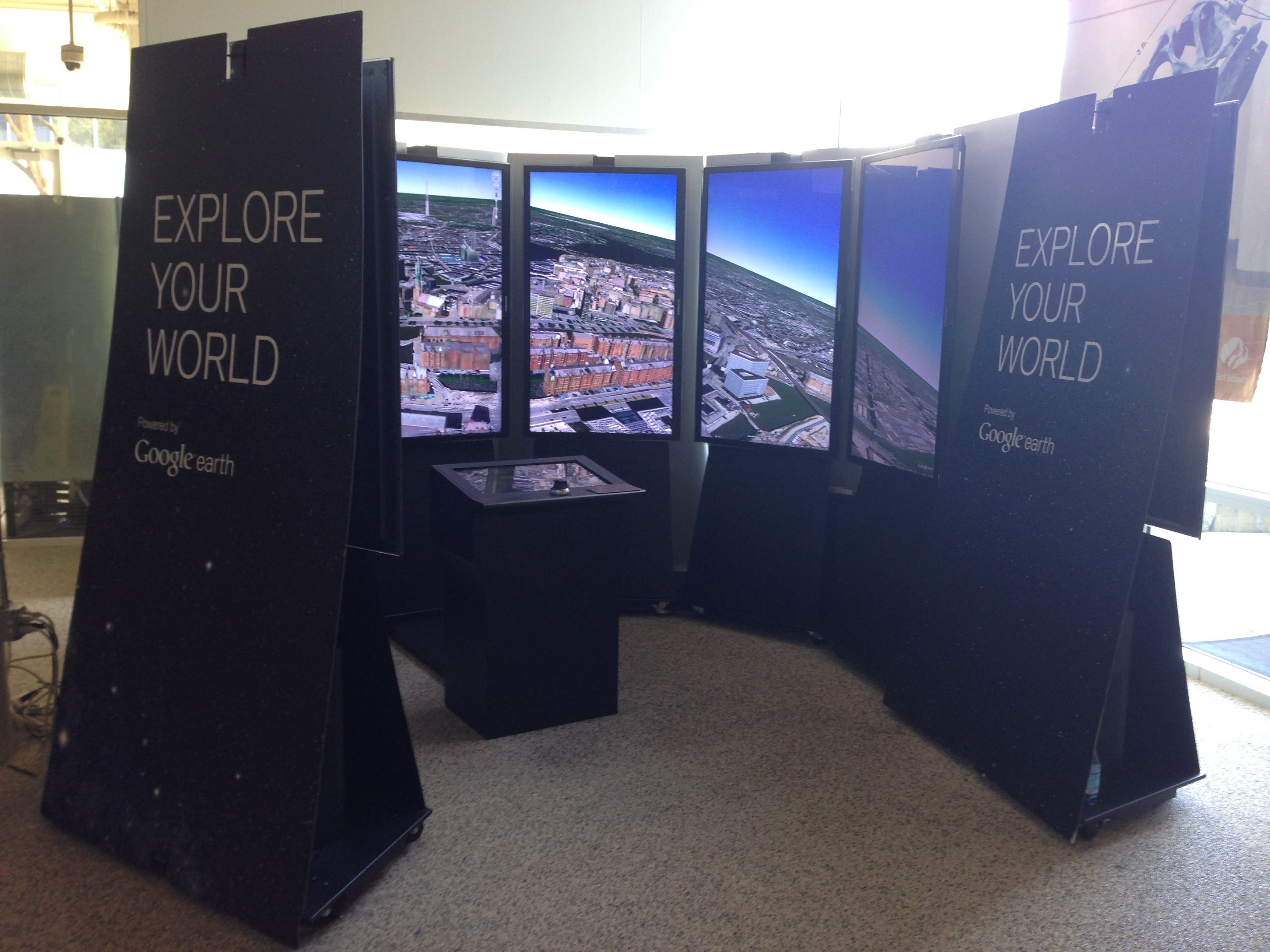 Interactive immersive Google Earth software projected on multiple monitors. In Googleplex building 43.